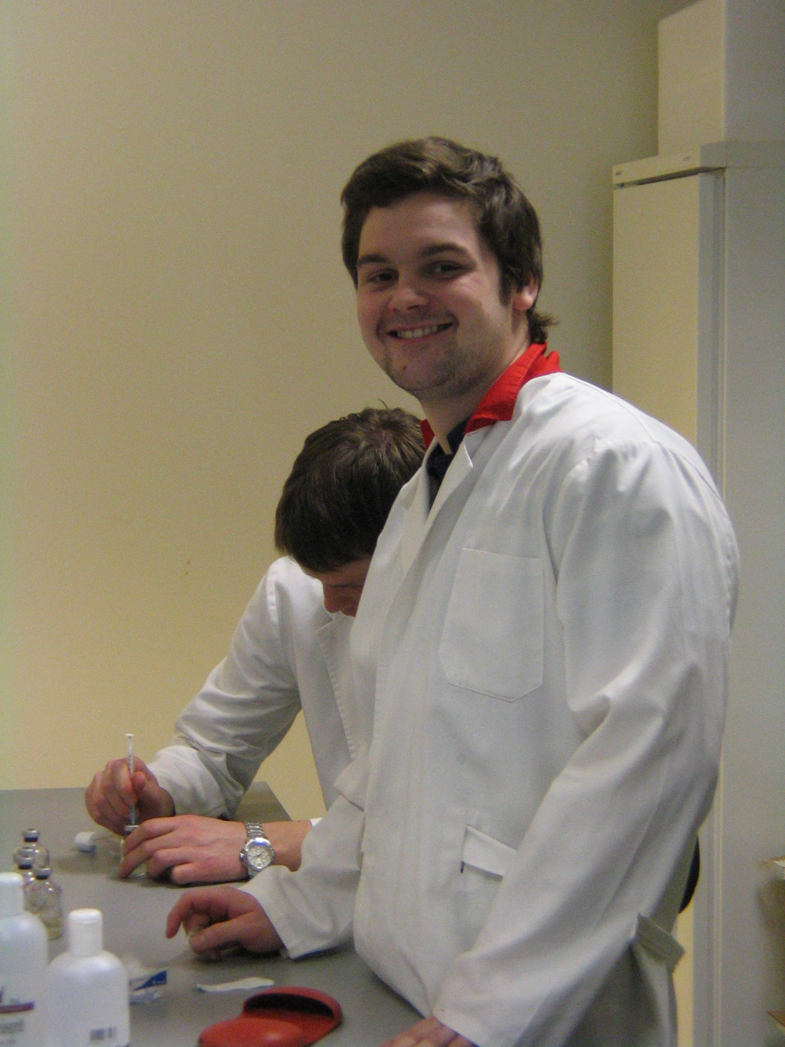 Icelandic scientist